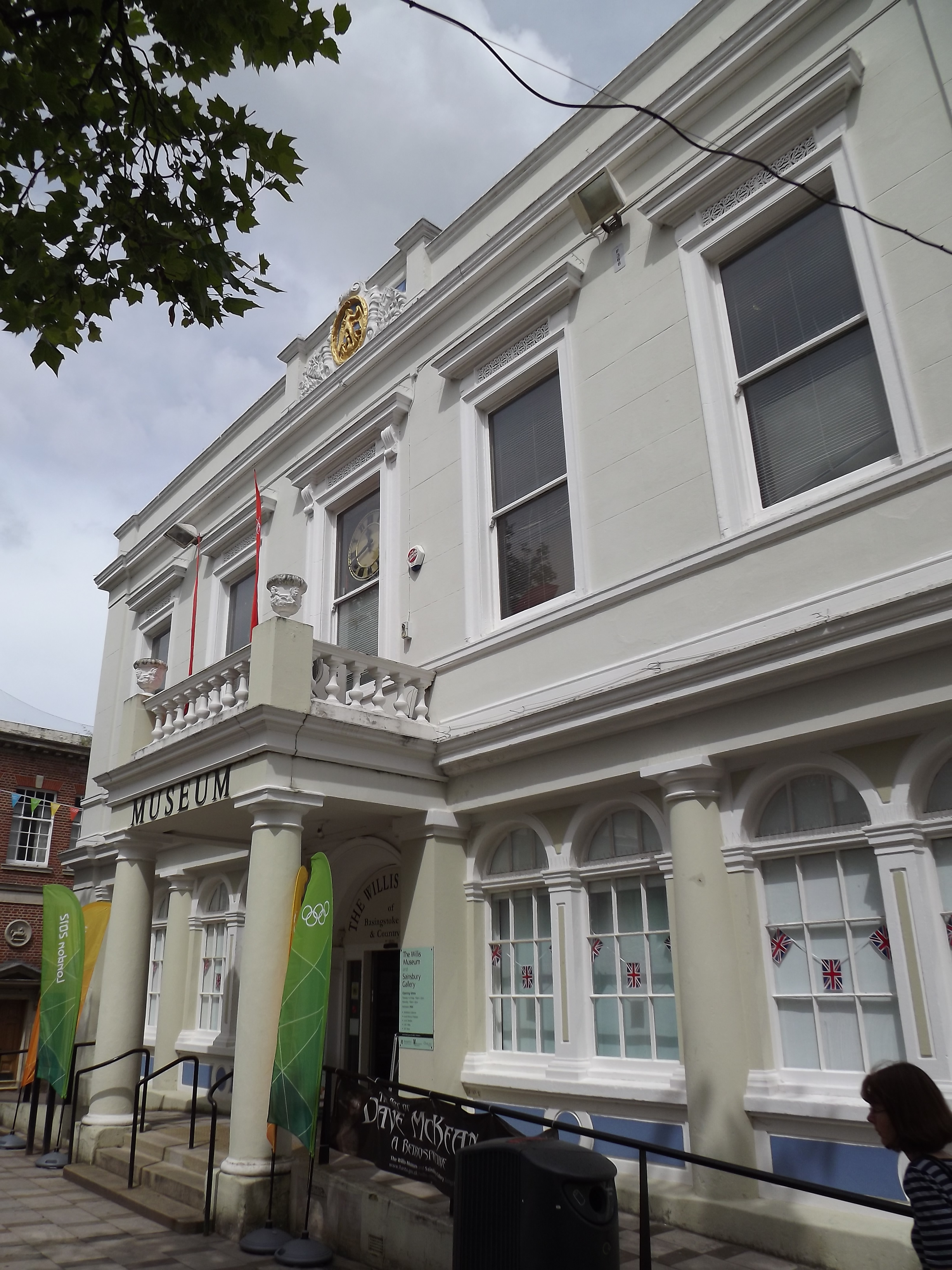 Willis Museum